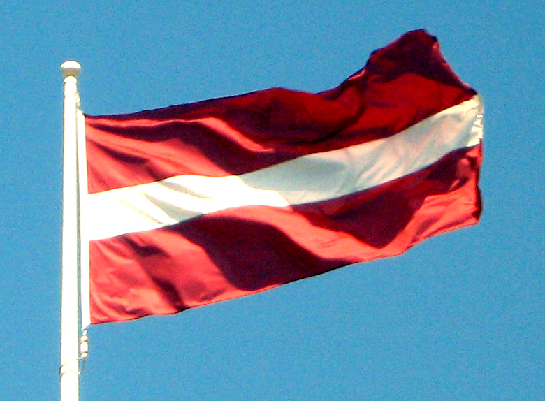 Flag of LatviaLatviešu: Latvijas karogs